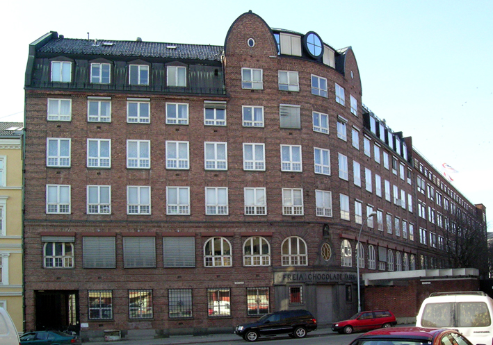 Freia Chocoladefabrikk, Oslo, Norway. Today part of Kraft Foods. Seen from Gøteborggata.